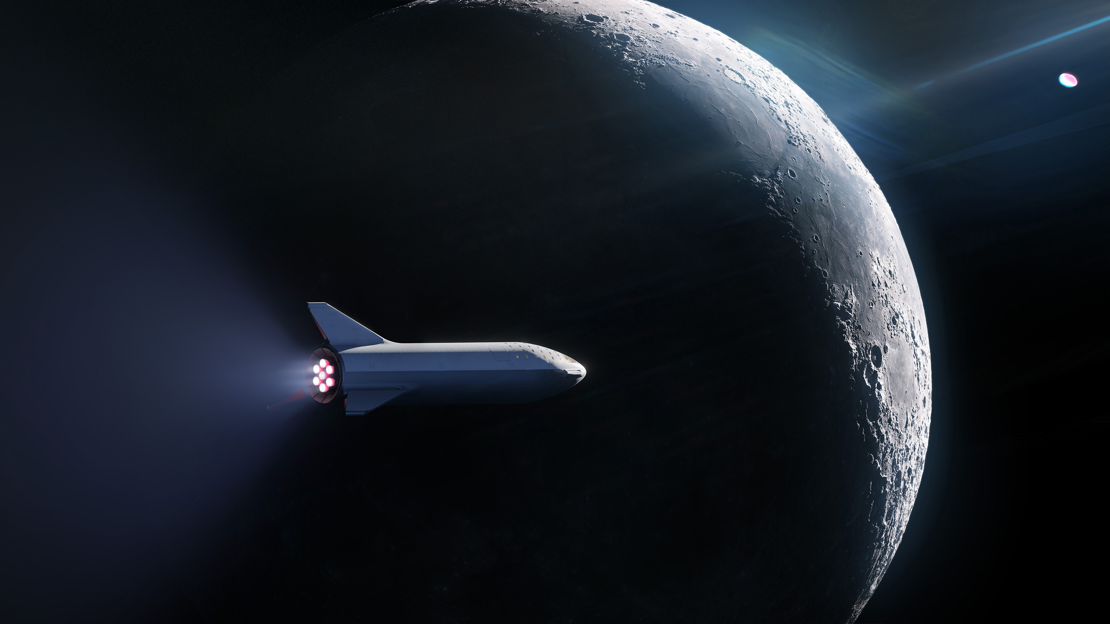 The BFR spaceship (2018 version) firing all of its engines while over the Moon. Vehicle was subsequently renamed by SpaceX as Starship in late 2018, and then a substantial redesign to the external control surfaces was done in Sep 2019 for the first "as built" version